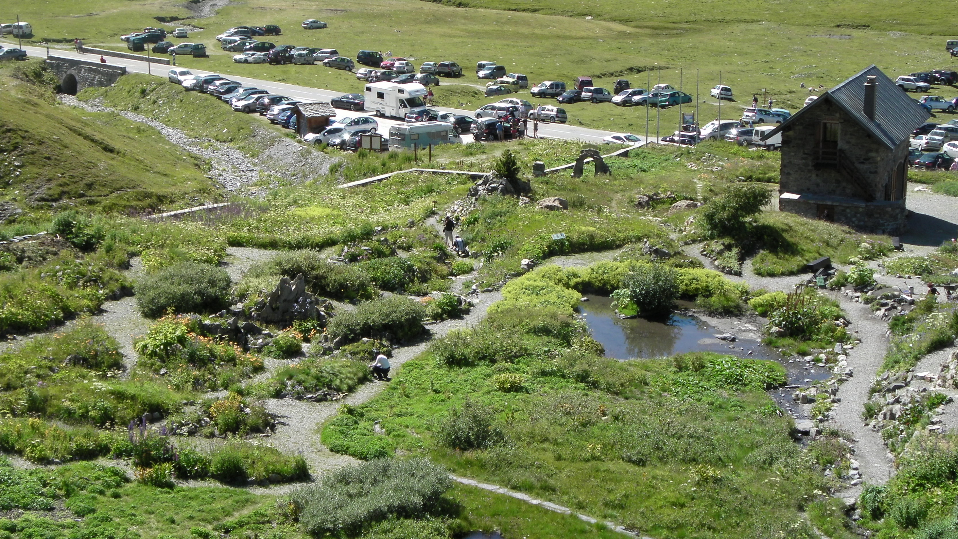 Alpine botanical garden Chanousia